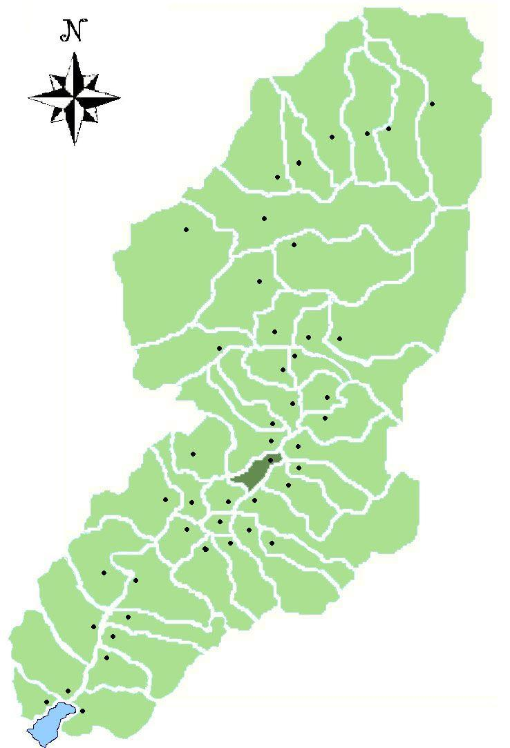 Map of the Comune di Losine, Valle Camonica